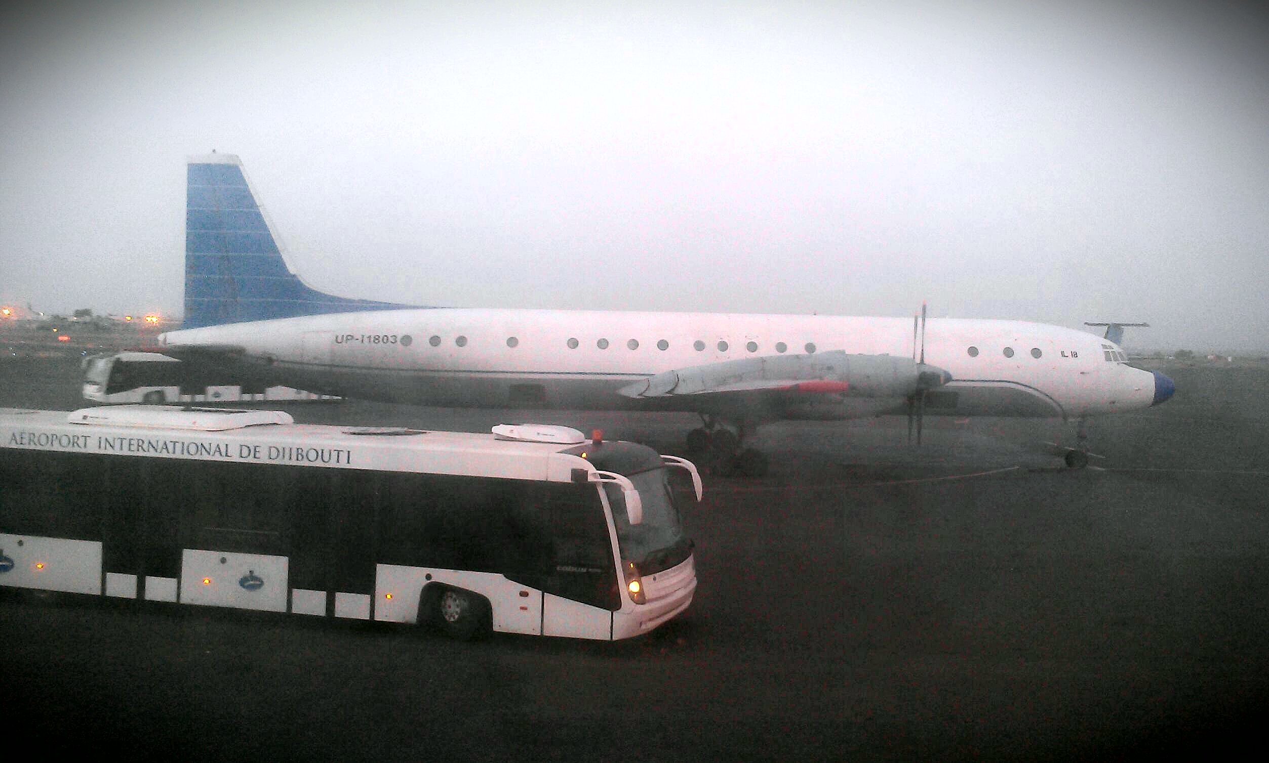 Ferrying bus and Ilyushin Il-18 on the Djibouti-Ambouli International Airport apron.